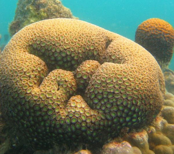 Palythoa sp. colony (Zoanthidea)